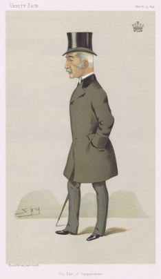 Caricature of The Earl of Camperdown.